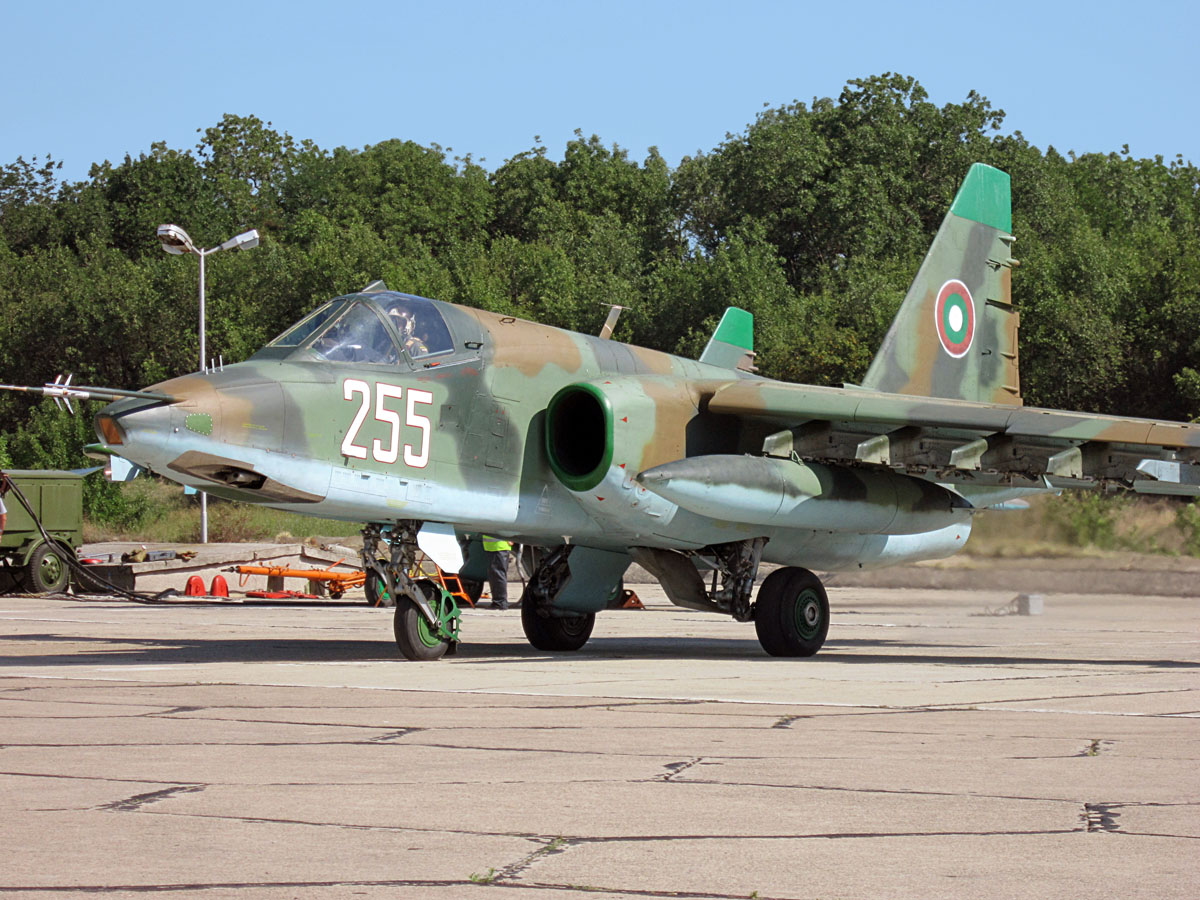 Bulgarian attack plane Su-25K "Frogfoot" at Bezmer air base.